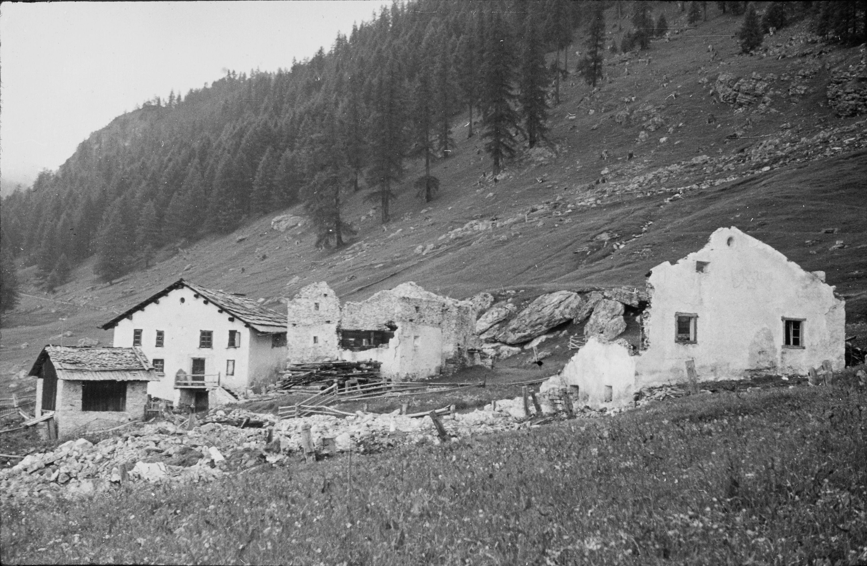 The hamlet Lü Daint was ruined by an avalanche in the "Winter of Terror" 1951 and evacuated by the military.